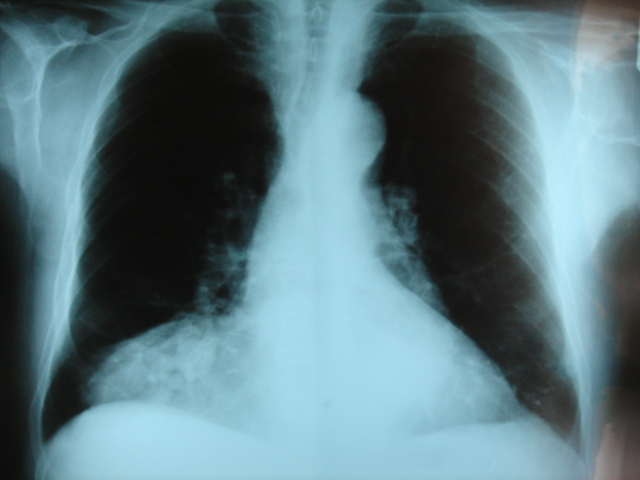 Joseaperez 19:16, 11 February 2014 (UTC)